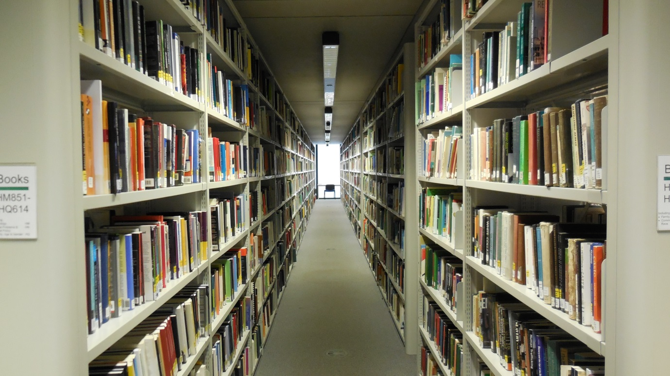 A view between two shelving aisles in the Bodleian Social Science Library